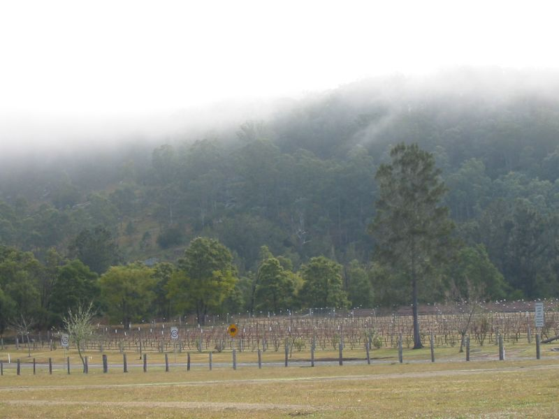 Picture of a vineyard in the Hunter Valley, New South Wales.